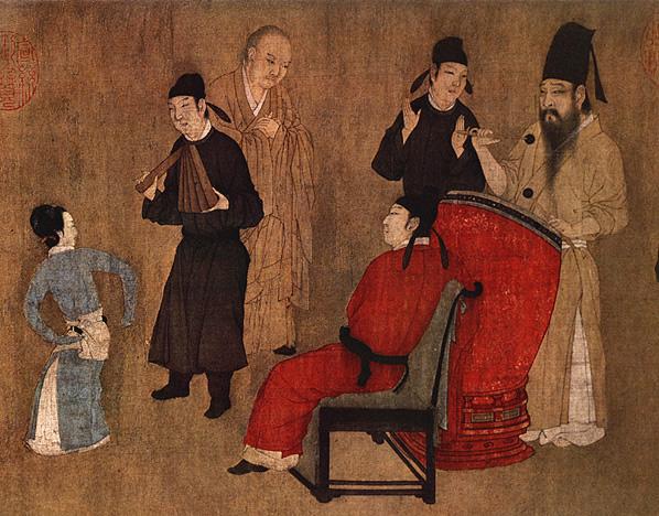 Close-up detail of the Chinese painting Night Revels, handscroll, ink and colors on silk, 28.7 x 335.5 cm.